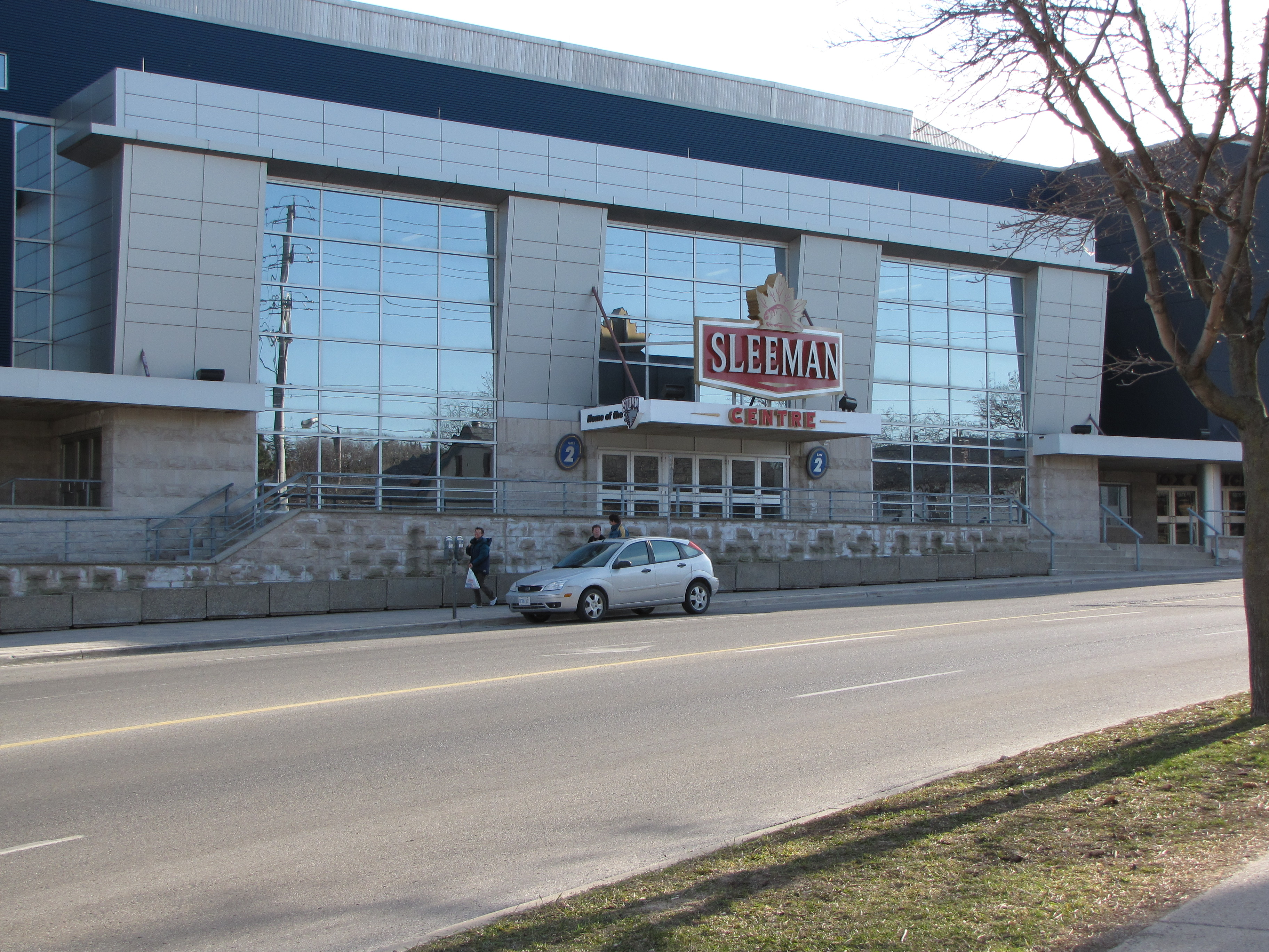 Exterior shot of the Sleeman Centre in Guelph, ON, as seen from Woolwich St.